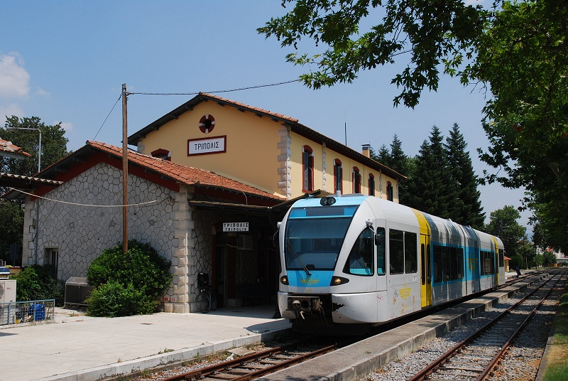 GREECE: Stadler GTW 2/6 DMU no 4508 at Tripolis station.